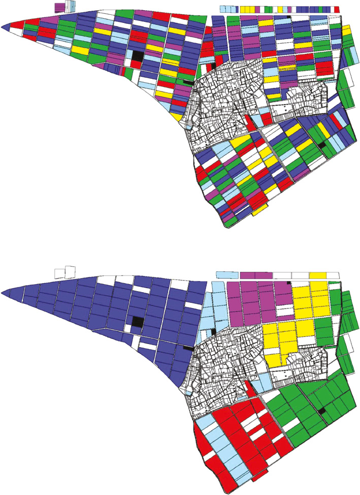 Map of a land consolidation process in the Shingai community in Hikone City, Shiga Prefecture, Japan. Note: Each color represents different cultivators. Source: Shingai Association for Improving Farmland Utilization.